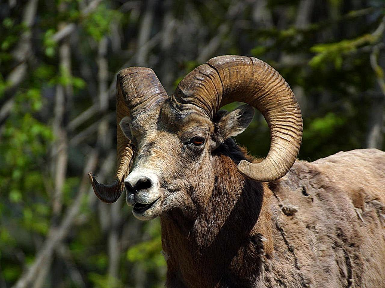 Image title: Rocky Mountain bighorn sheep Image from Public domain images website